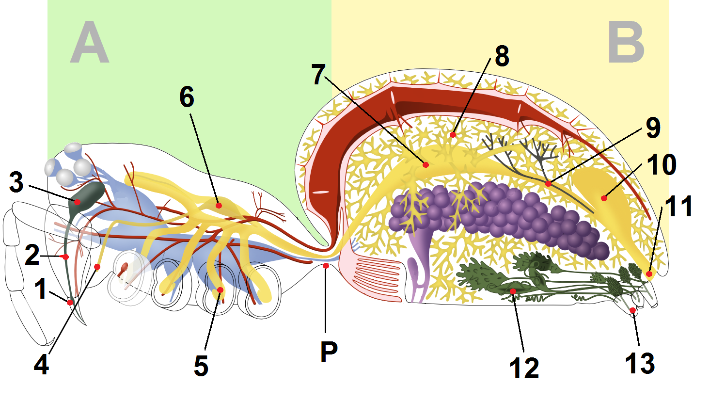 Spider anatomy